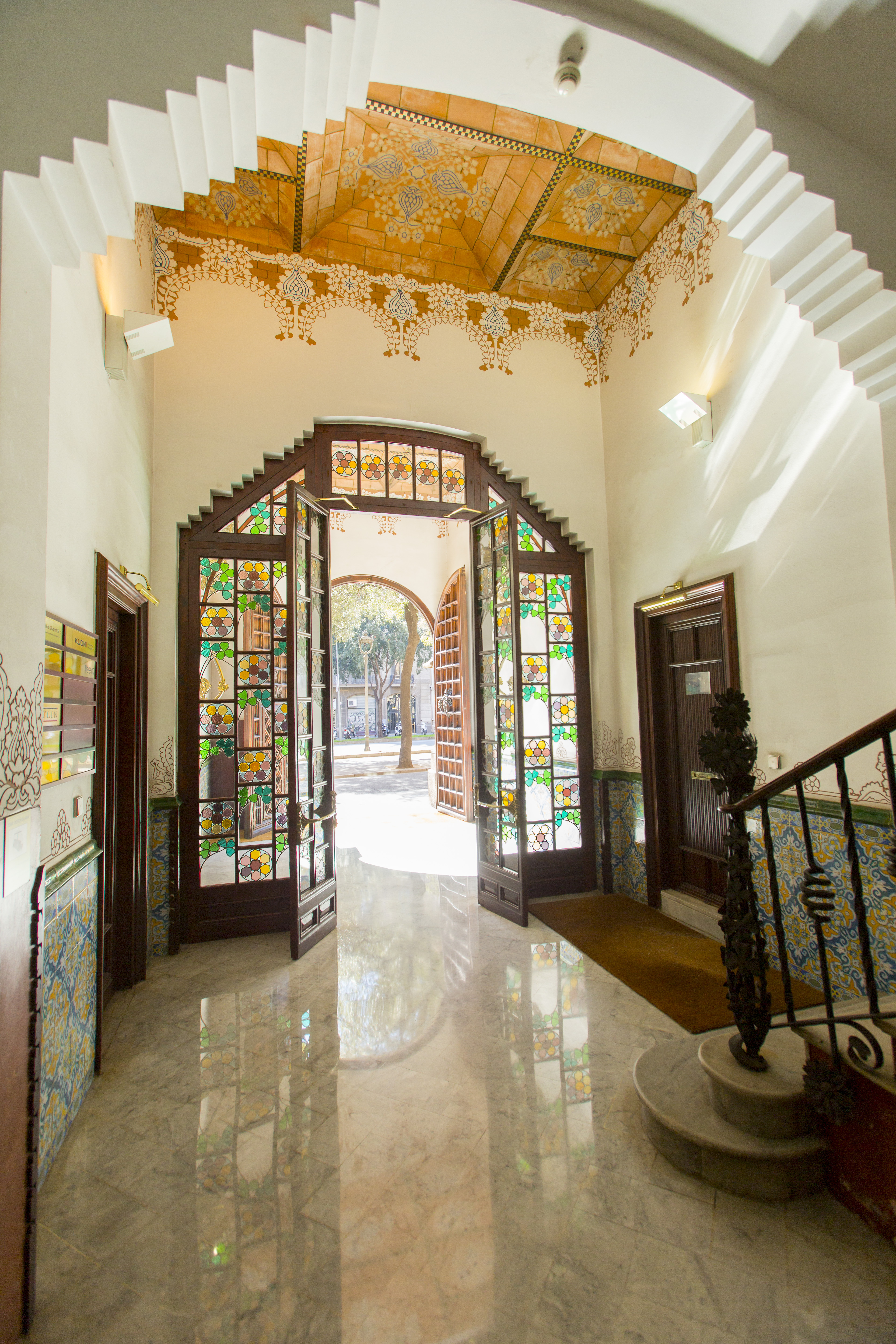 FOTO FERRAN NADEU